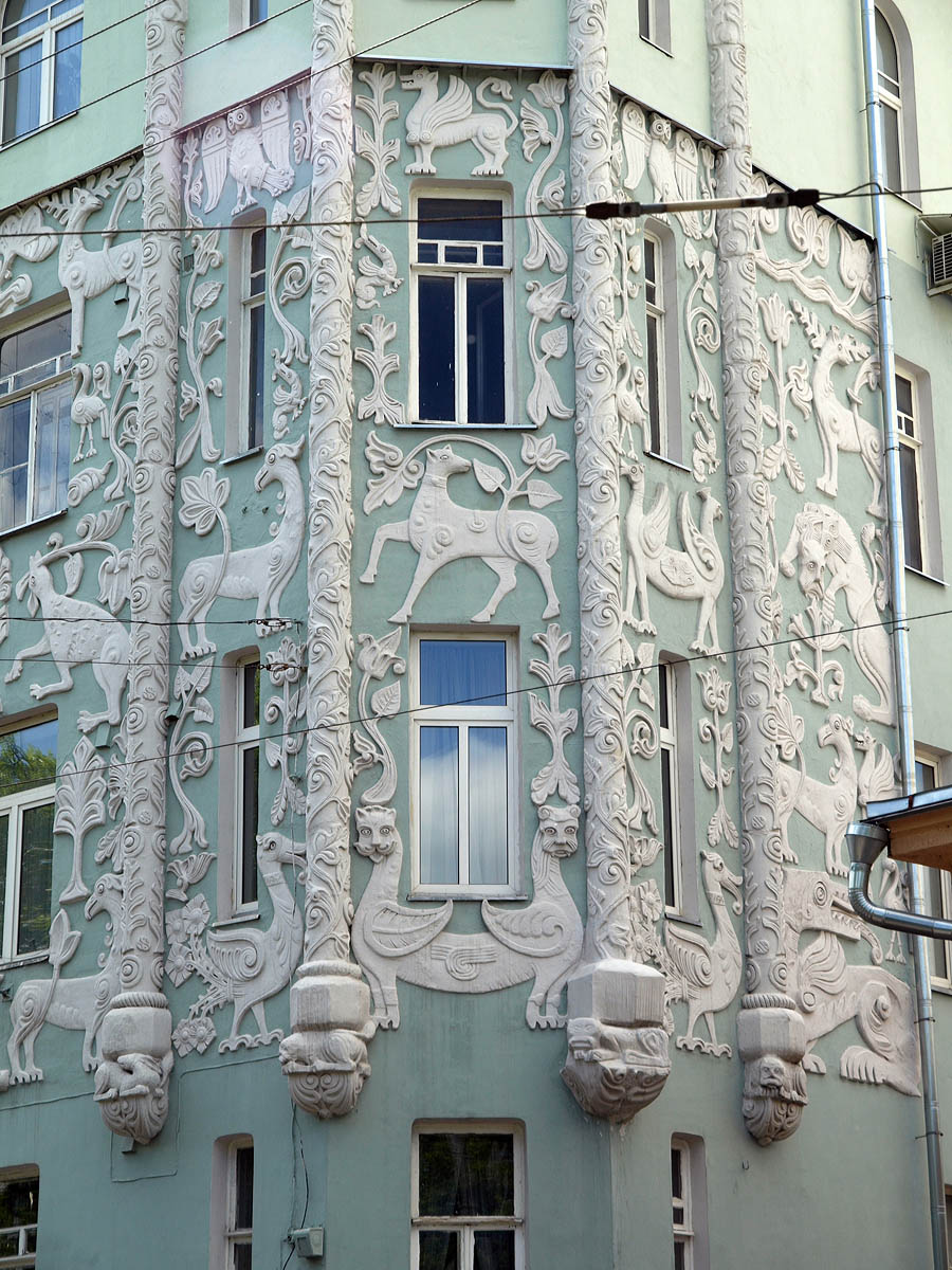 House with mystical beasts (Moscow, Chistoprudny boulevard, 14)